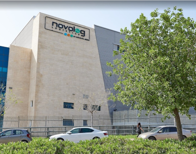 novolog office